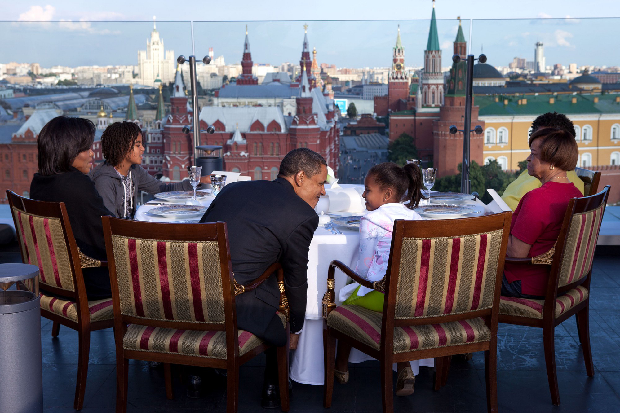 Dining with the First Family on the roof of the Ritz Carlton Hotel in Moscow, Russia, July 7, 2009. (Official White House photo by Pete Souza)